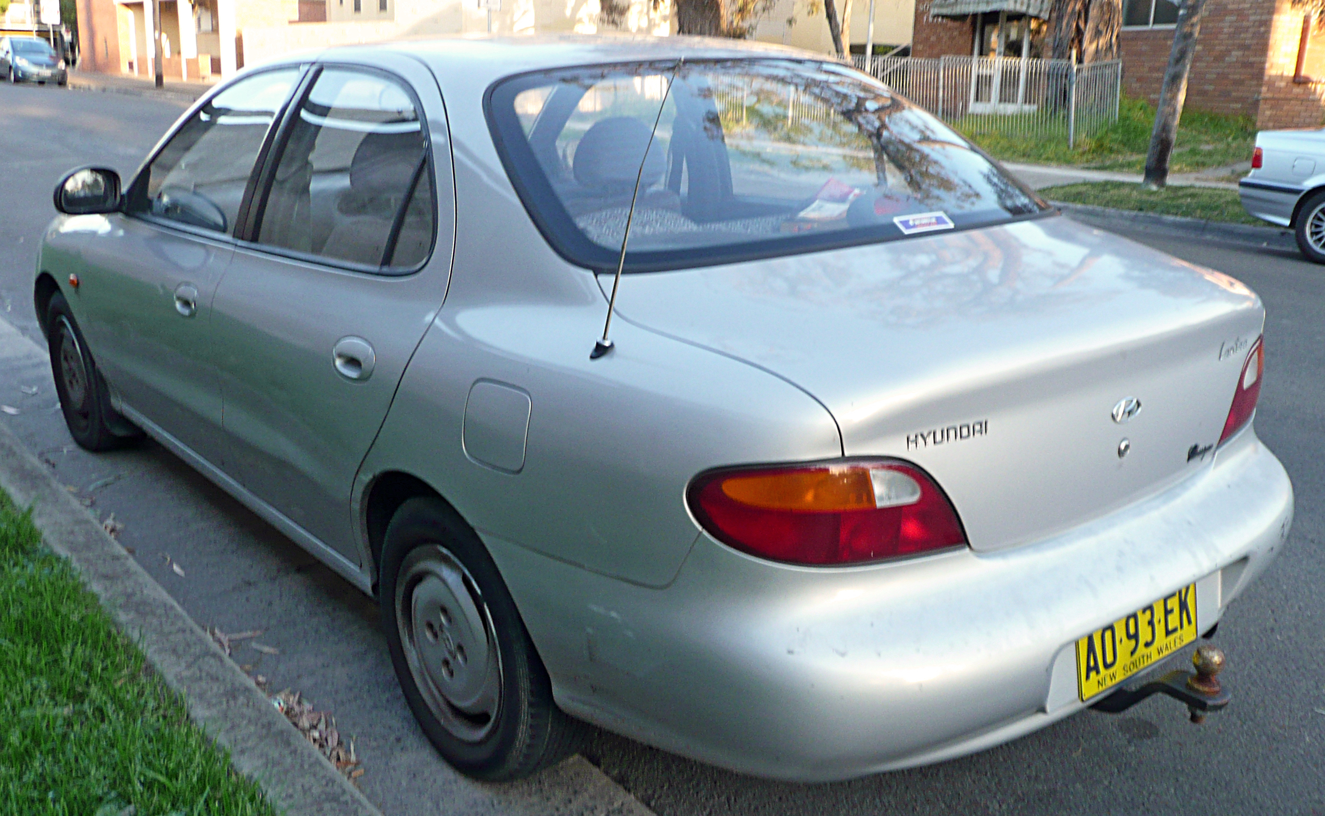 1996 Hyundai Lantra (J2) Classique sedan. Photographed in Sutherland, New South Wales, Australia.